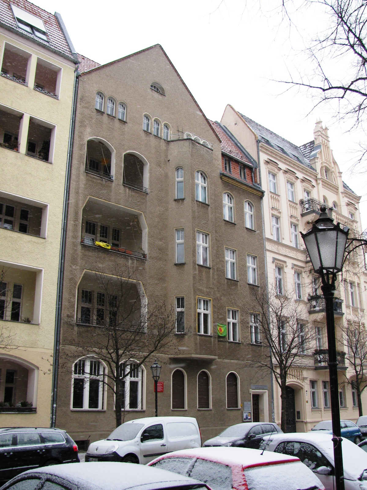 Rectory of Gethsemane parish Berlin, Gethsemanestraße 9, Berlin, Germany.